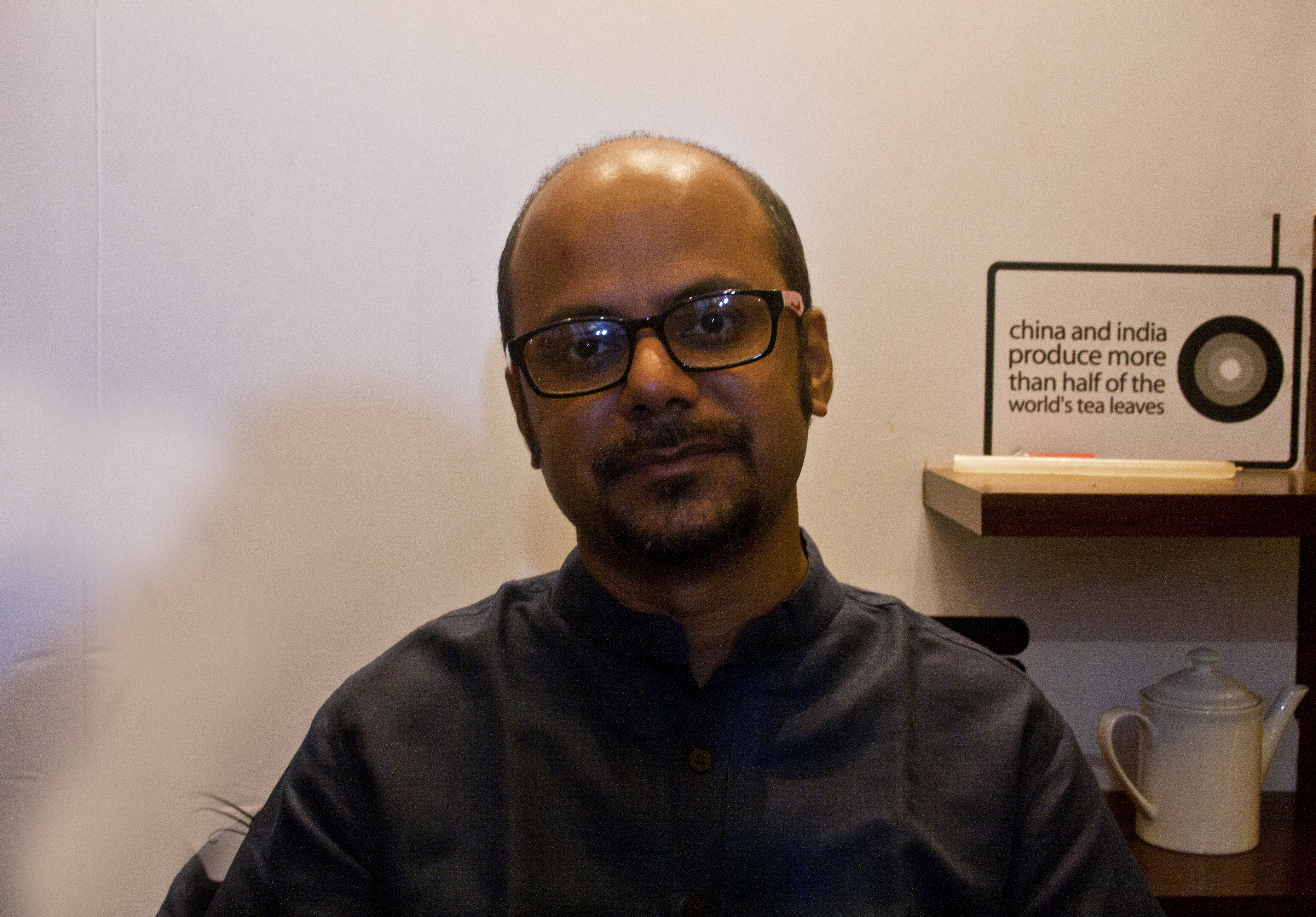 Bengali Poet Srijato Bandopadhyay at Oxford Book Store, Kolkata, India - Apeejay Bangla Sahitya Utsob 2015